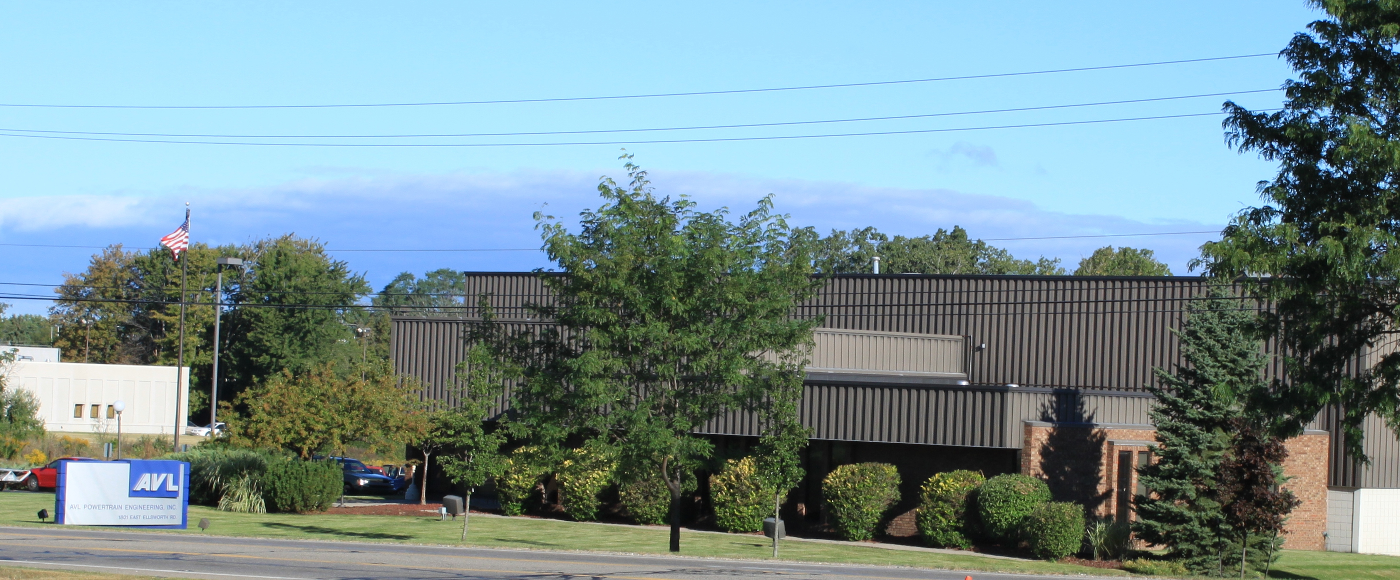 AVL Powertrain Engineering, Inc., 1801 E. Ellsworth Road, Ann Arbor, Michigan